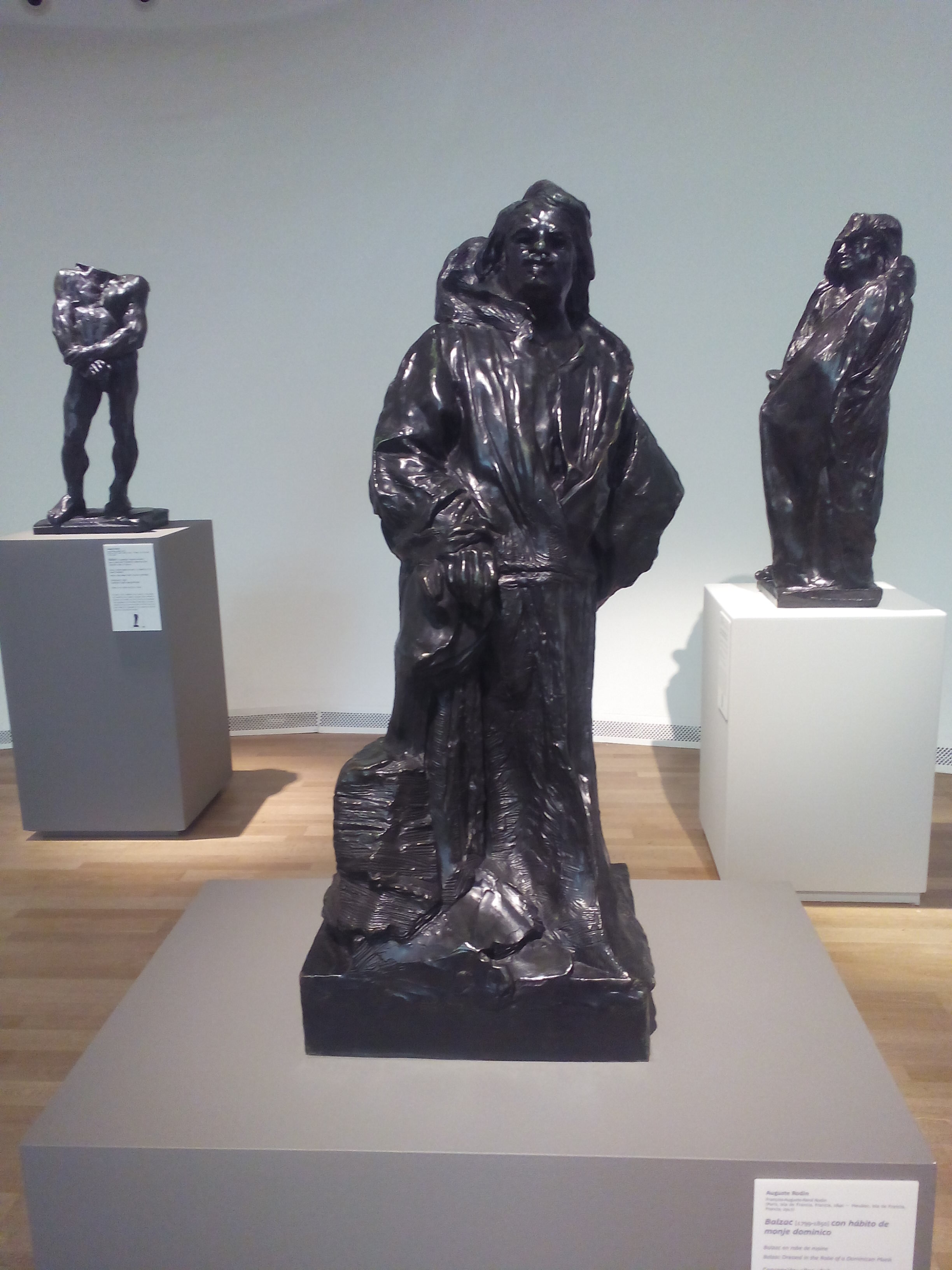 Three sculptures made by Auguste Rodin depicting Honoré de Balzac